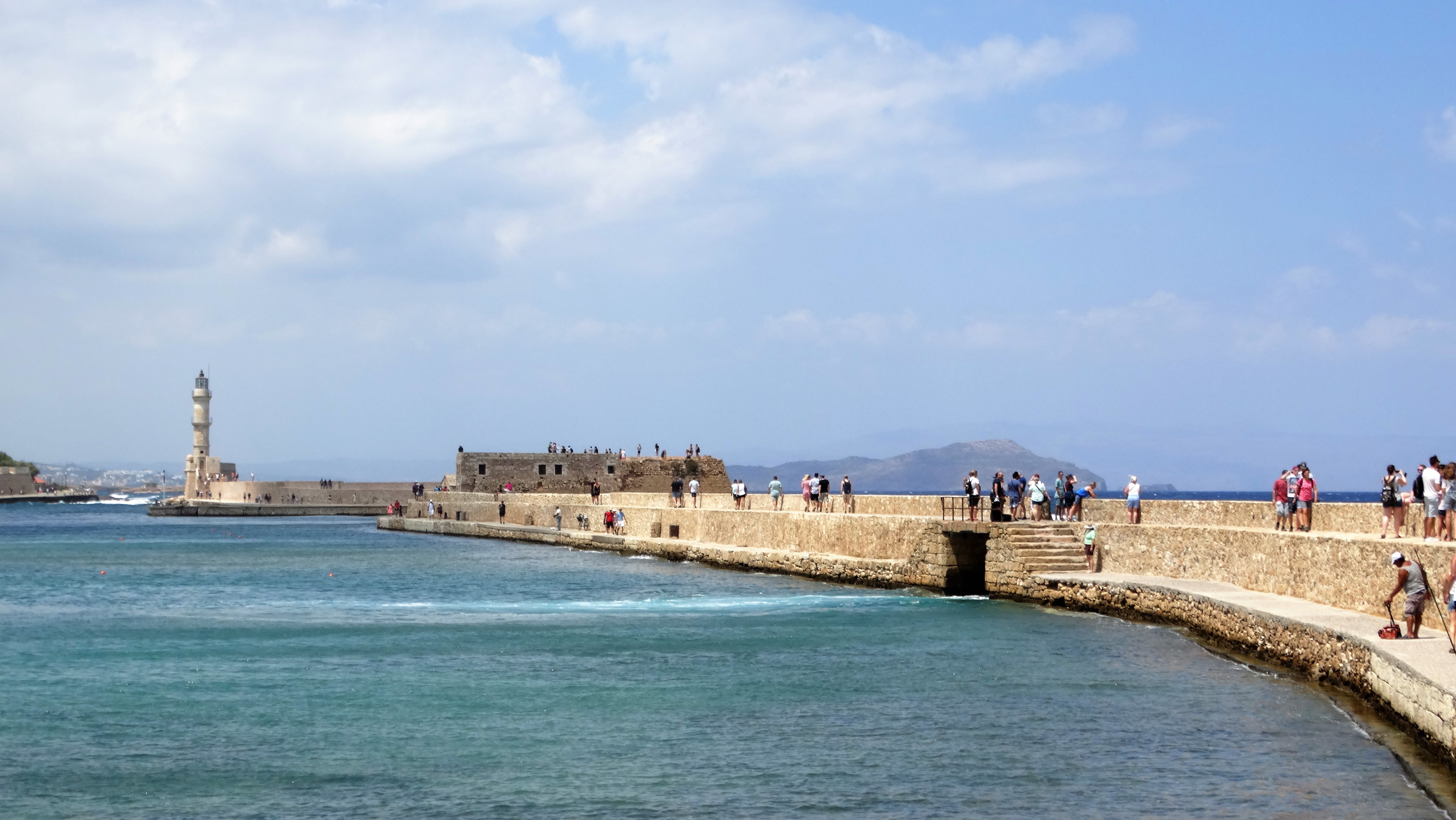 The Venetian port of Chania (Τα Χανιά), in Crete, visited by tourists in August 2018.